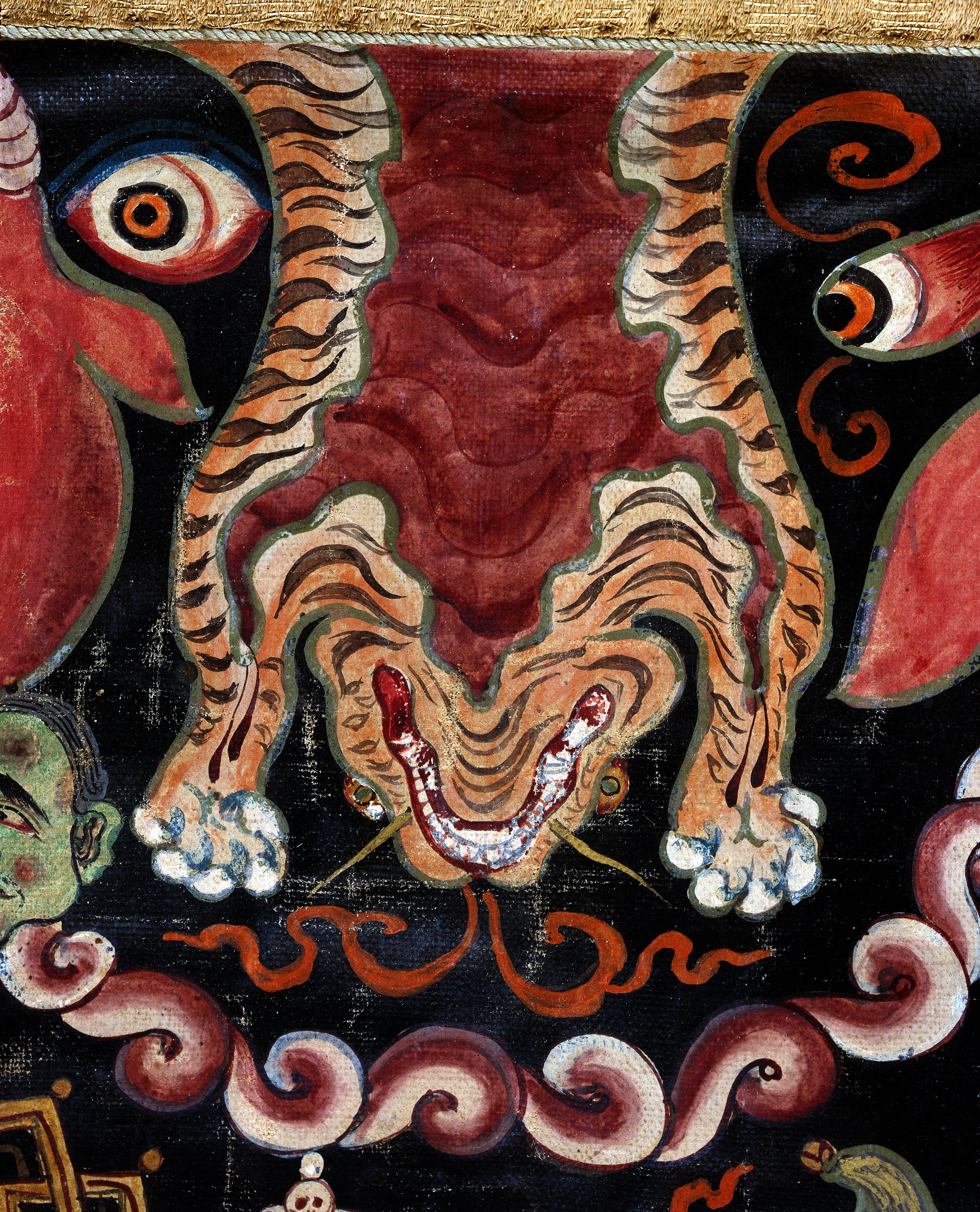 Detail of the flayed skin of a tiger from Attributes of the six-handed Yeshe Gonpo (Mahakala) (Jnananatha 'Lord of the Pristine Cognition) in a Tibetan "rgyan tshogs" banner. Iconographic Collections Keywords: Buddhist; Monsters; Religion; Art; Skull; Animals; Buddhism; Tibet